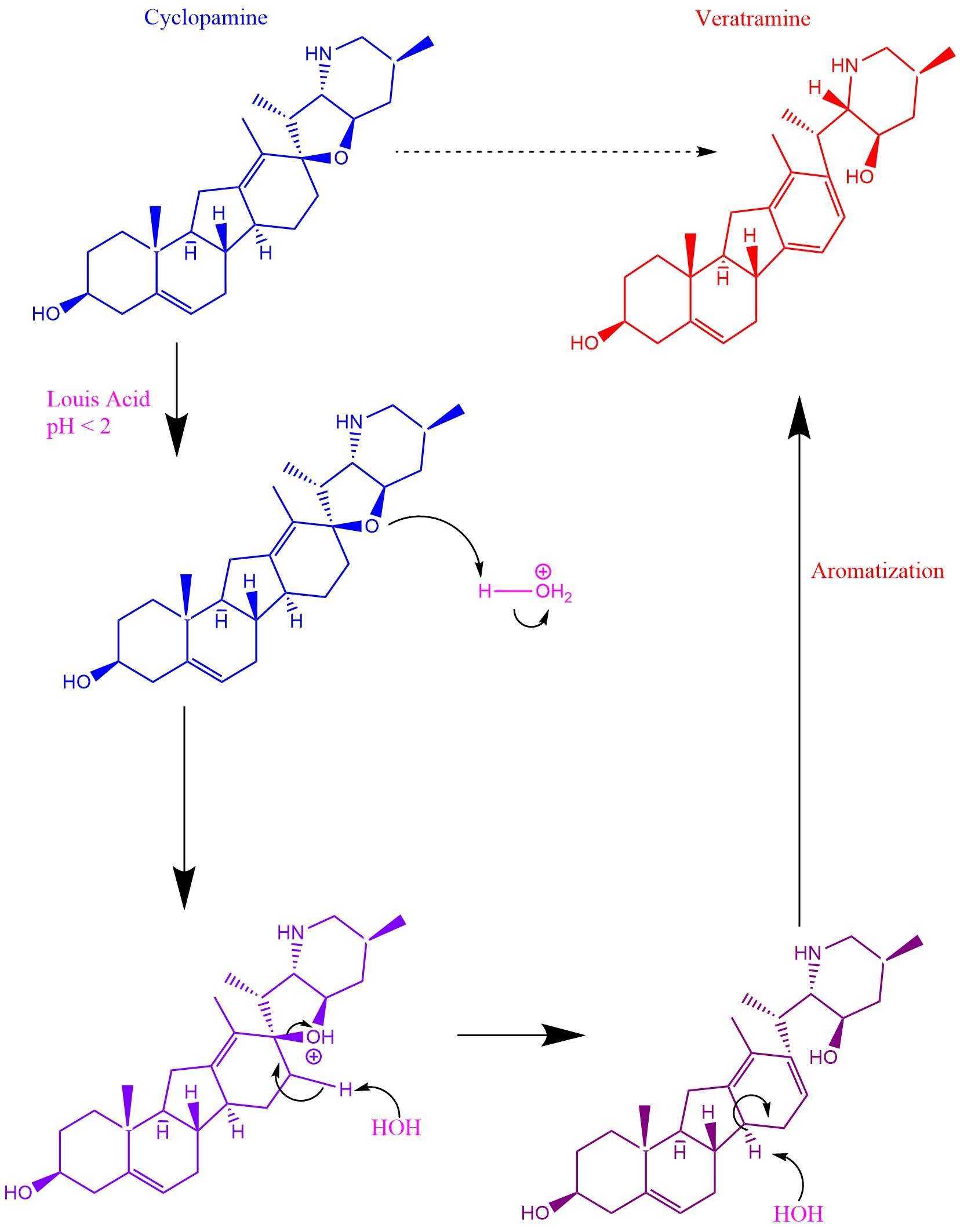 Cyclopamine as metabolized by the body in the stomach, information interpreted from [1].